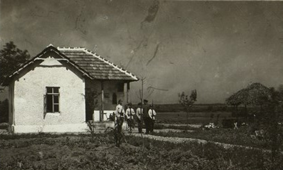 Bulgaria